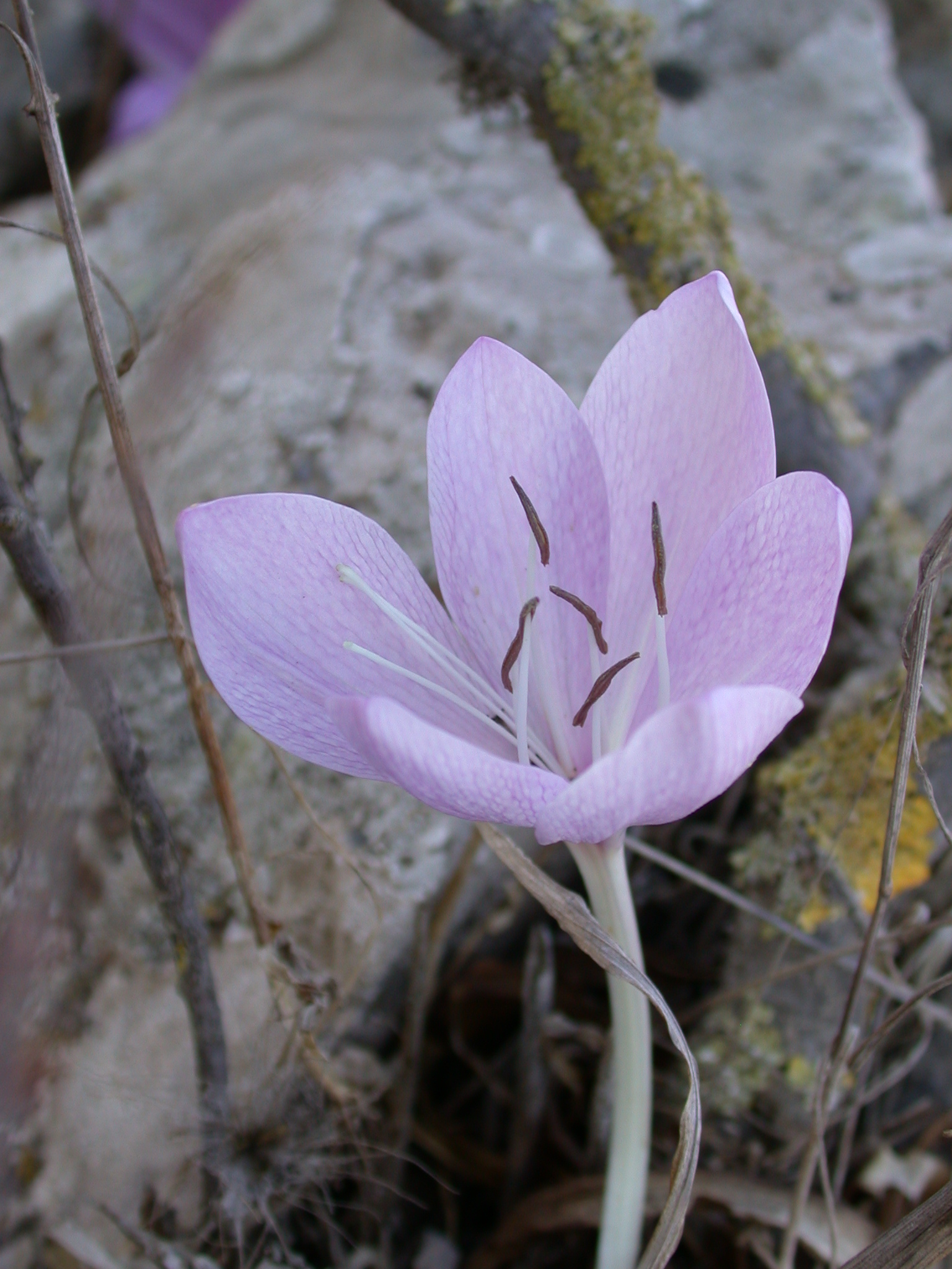 Colchicum feinbruniae K.Perss. (סתוונית התשבץ, סתוונית הפסיפס), Reches Chezka, Golan Heights, Israel/Syria, October 7, 2006.